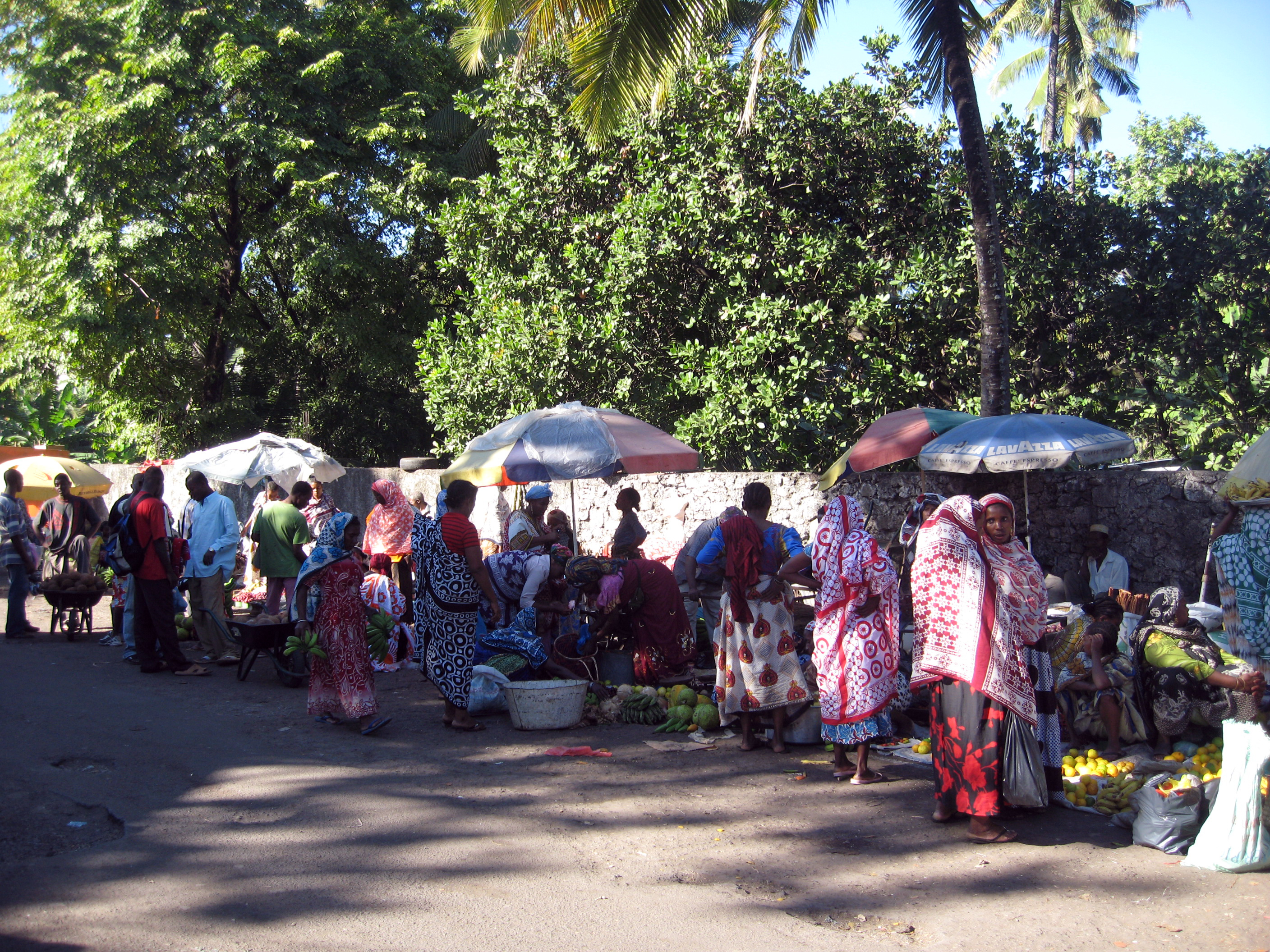 Moroni, Grande Comore